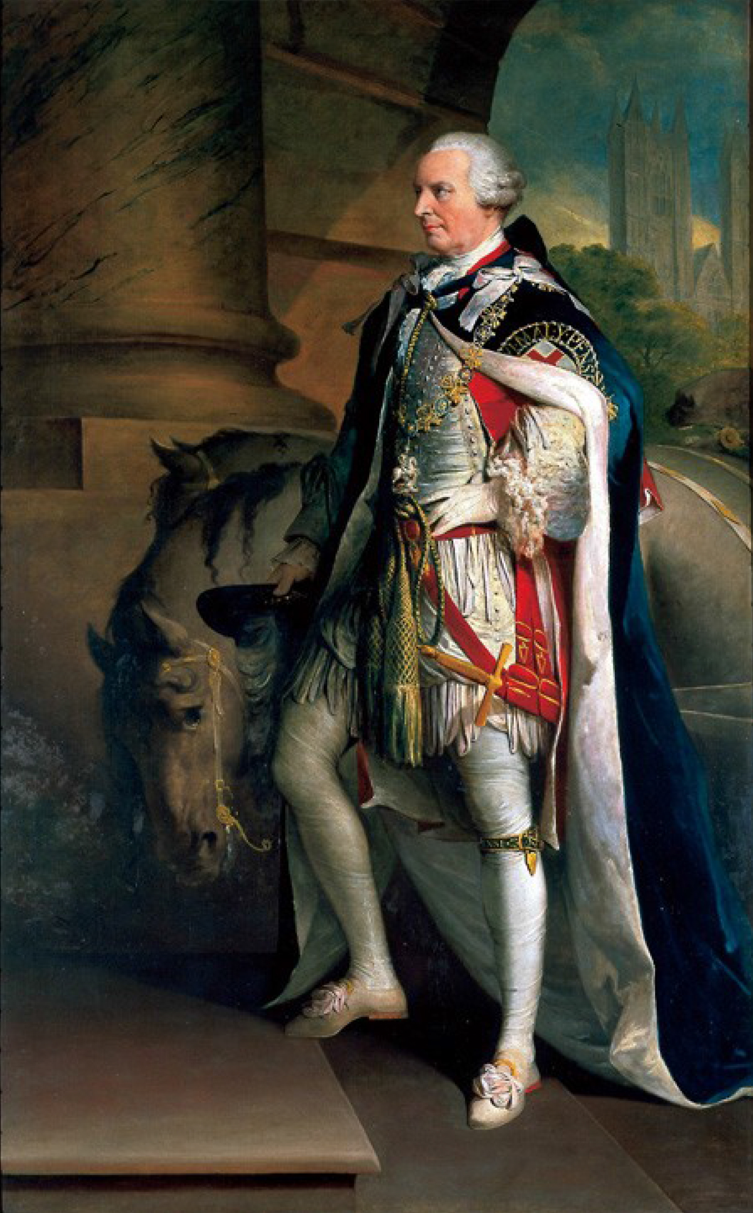 Hugh Percy, 1st Duke of Northumberland